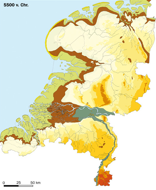 Palaeography of the Netherlands 5500 BC